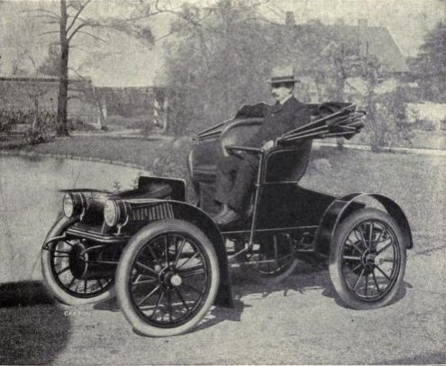 Photo of a 1909 Baker Suburban Runabout driven by W. C. Baker from the cited text